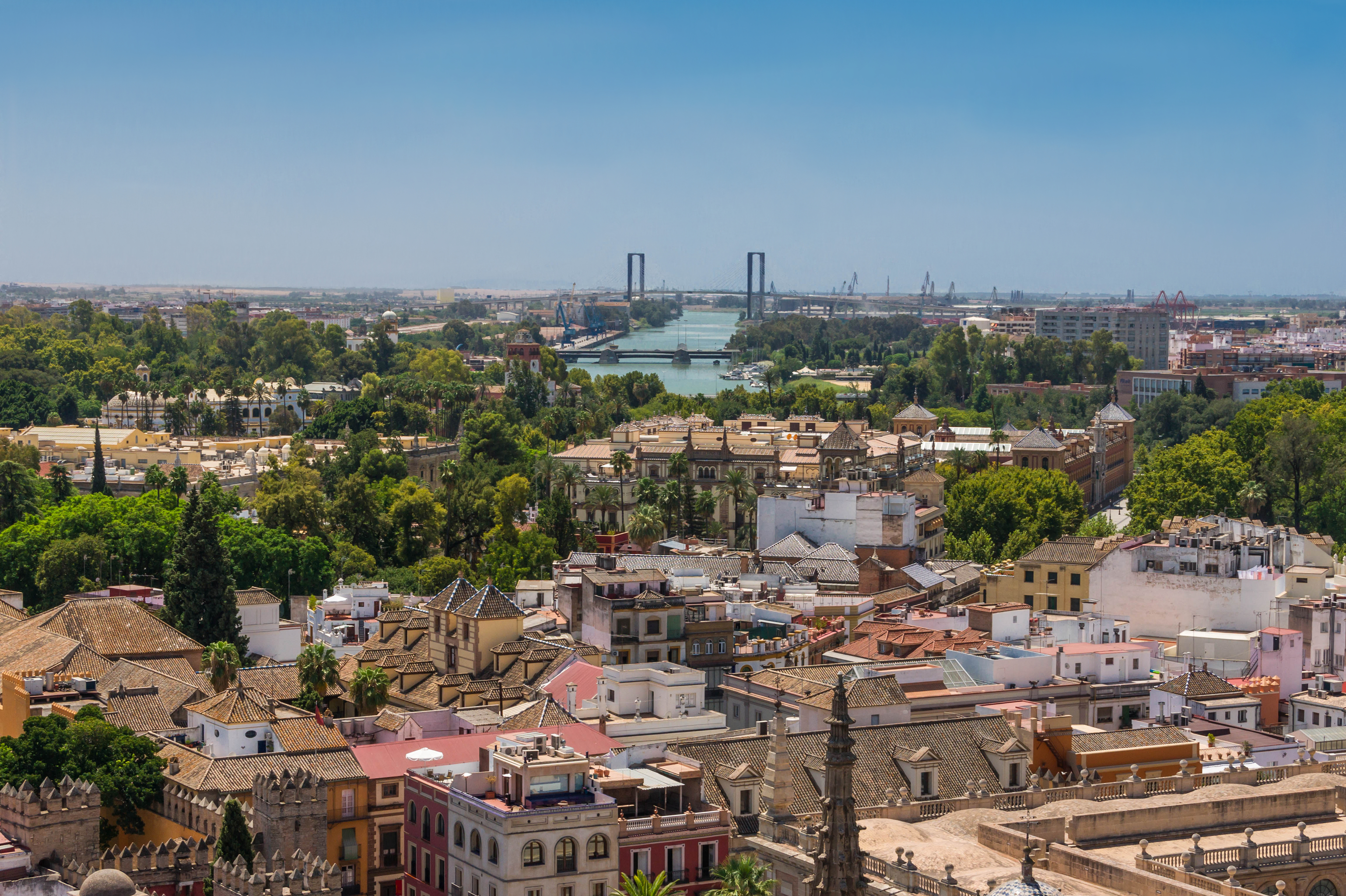 Roofs, Guadalquivir river, Delicias Bridge, 5th Centenary Bridge, from the top of the Giralda, Seville, Spain.